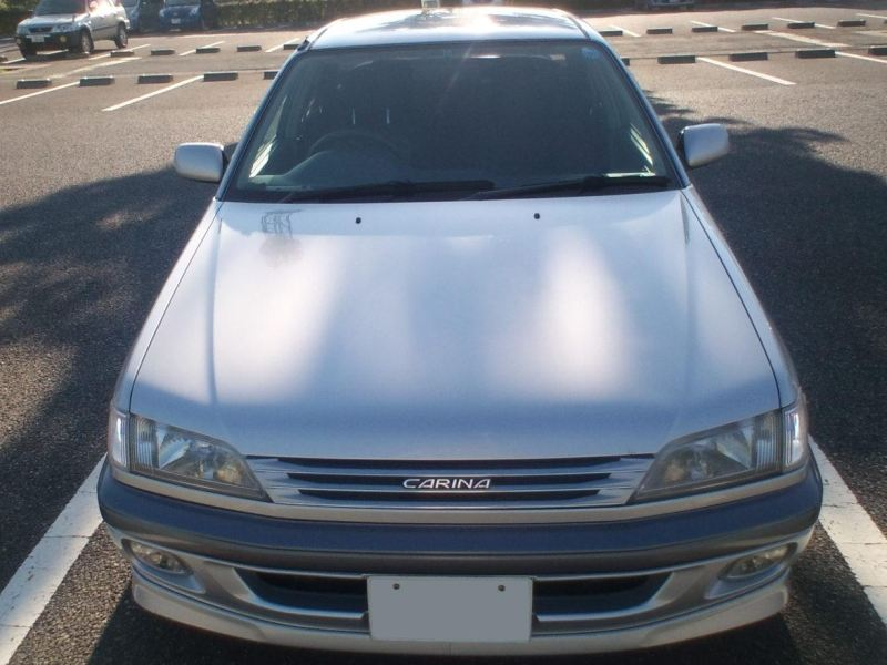 1996 Toyota Carina GT(type AT210) taken in Hiratsuka,Kanagawa,Japan